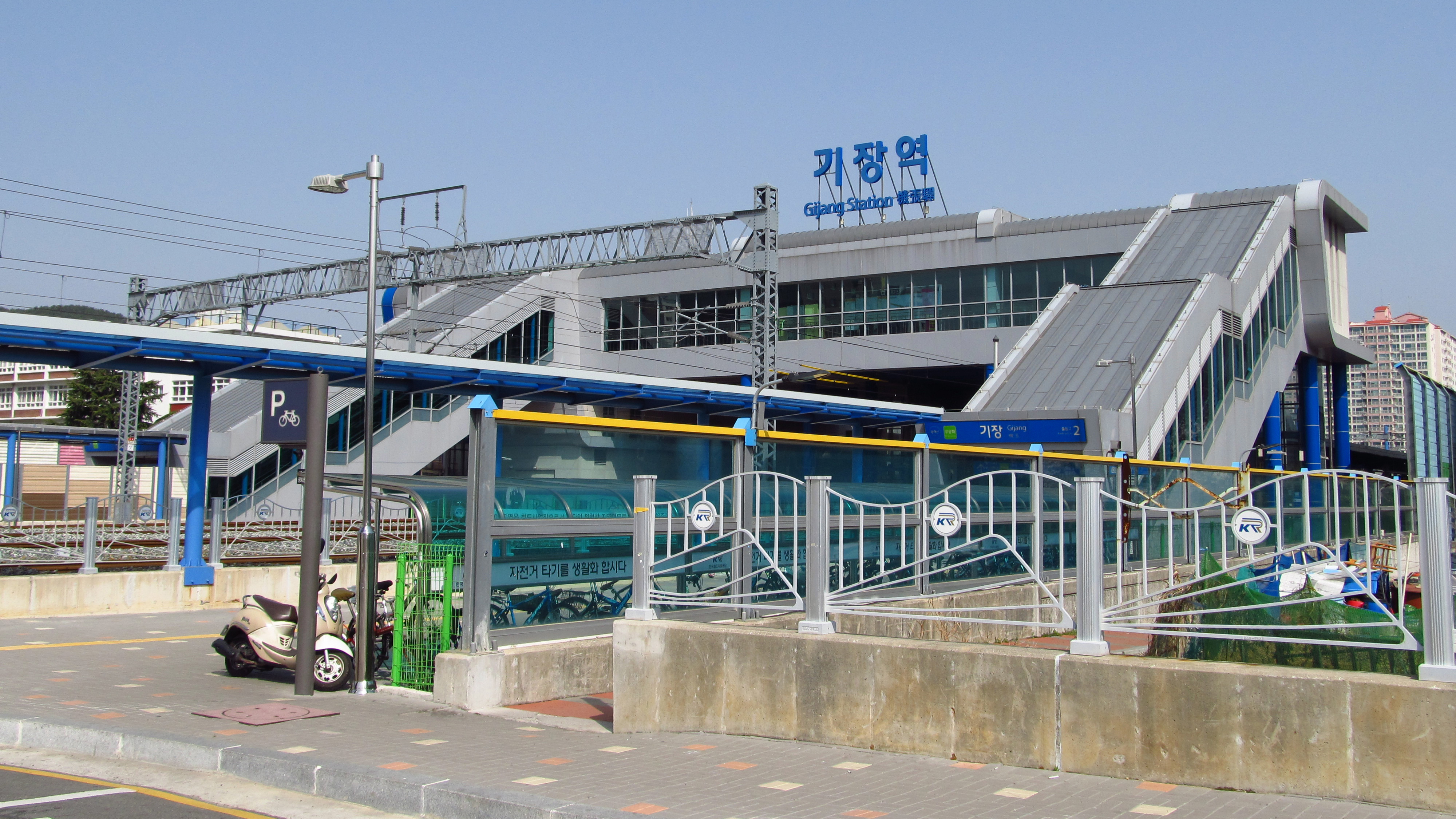 The entrances to Gijang Station on the Donghae Line in Gijang-gun, Busan, Republic of Korea(South Korea)